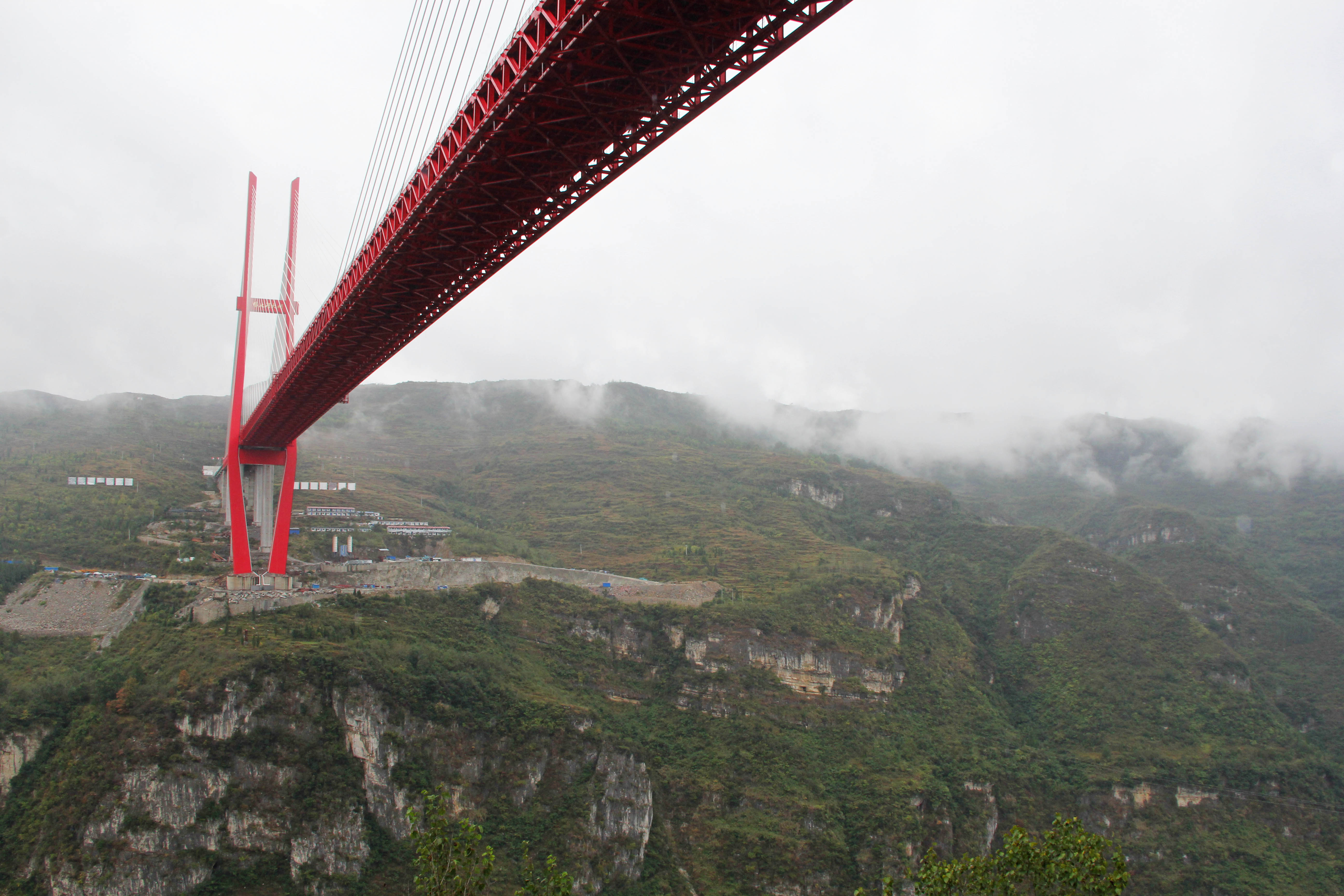 Yachi Bridge view from east side of canyon.